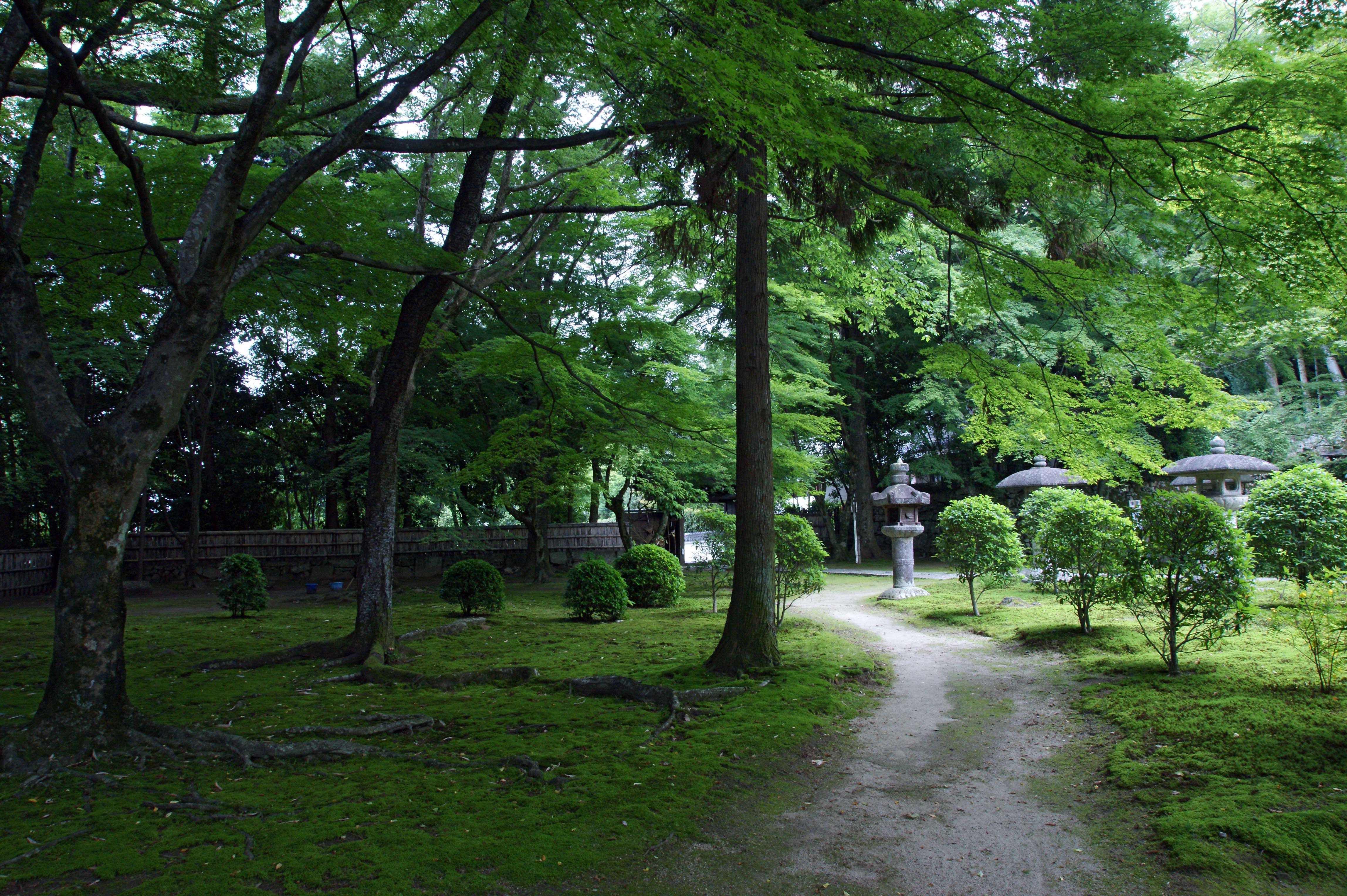 Jigendo in Sakamoto, Otsu, Shiga prefecture, Japan